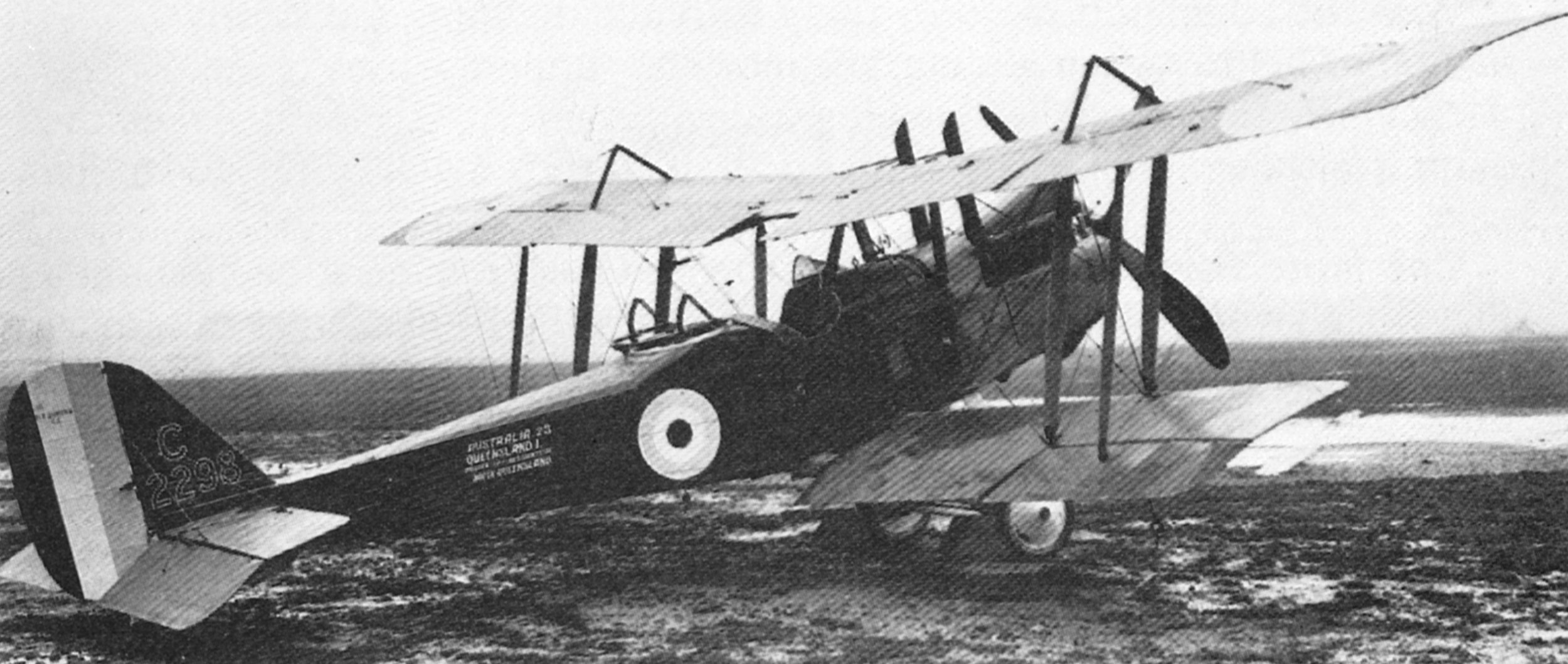 R.E.8 aircraft paid for by subscription